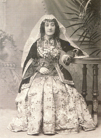 Armenian girl from Nukhi (nowdays in Azerbaijan)